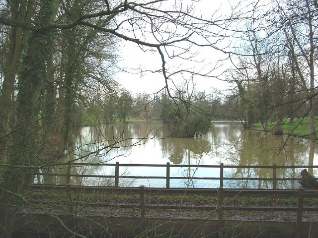 Biddlesden Park Lake The lake at Biddlesden Park as viewed from the bridge on the Westbury to Biddlesden road